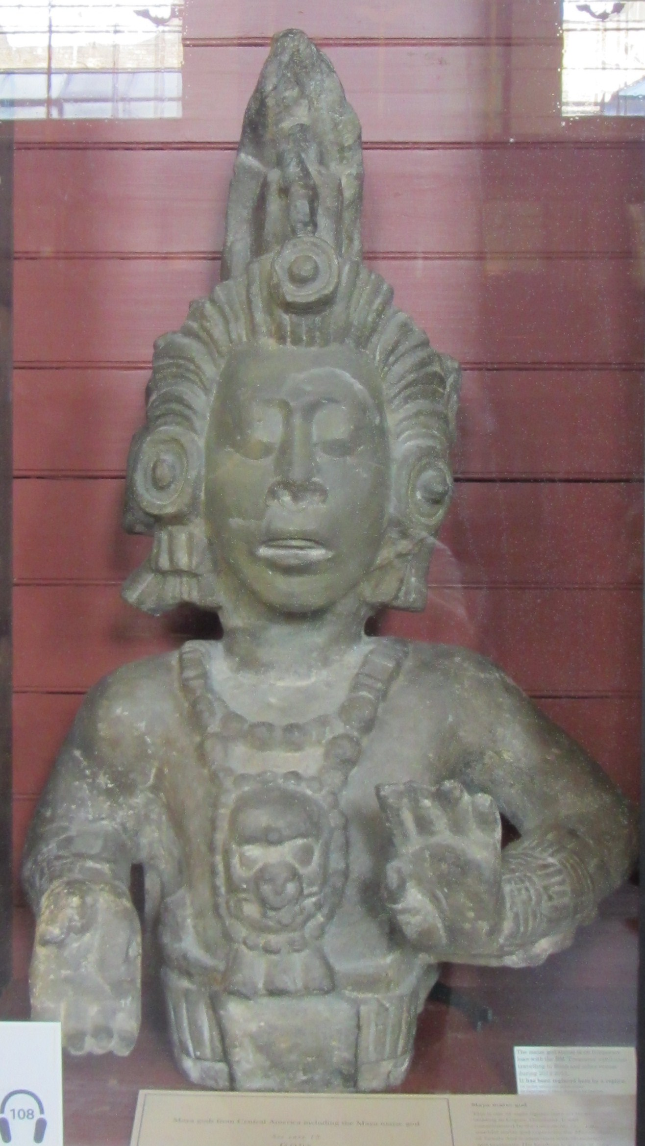 Maya maize god statue at the British Museum (AOA 1886-321)